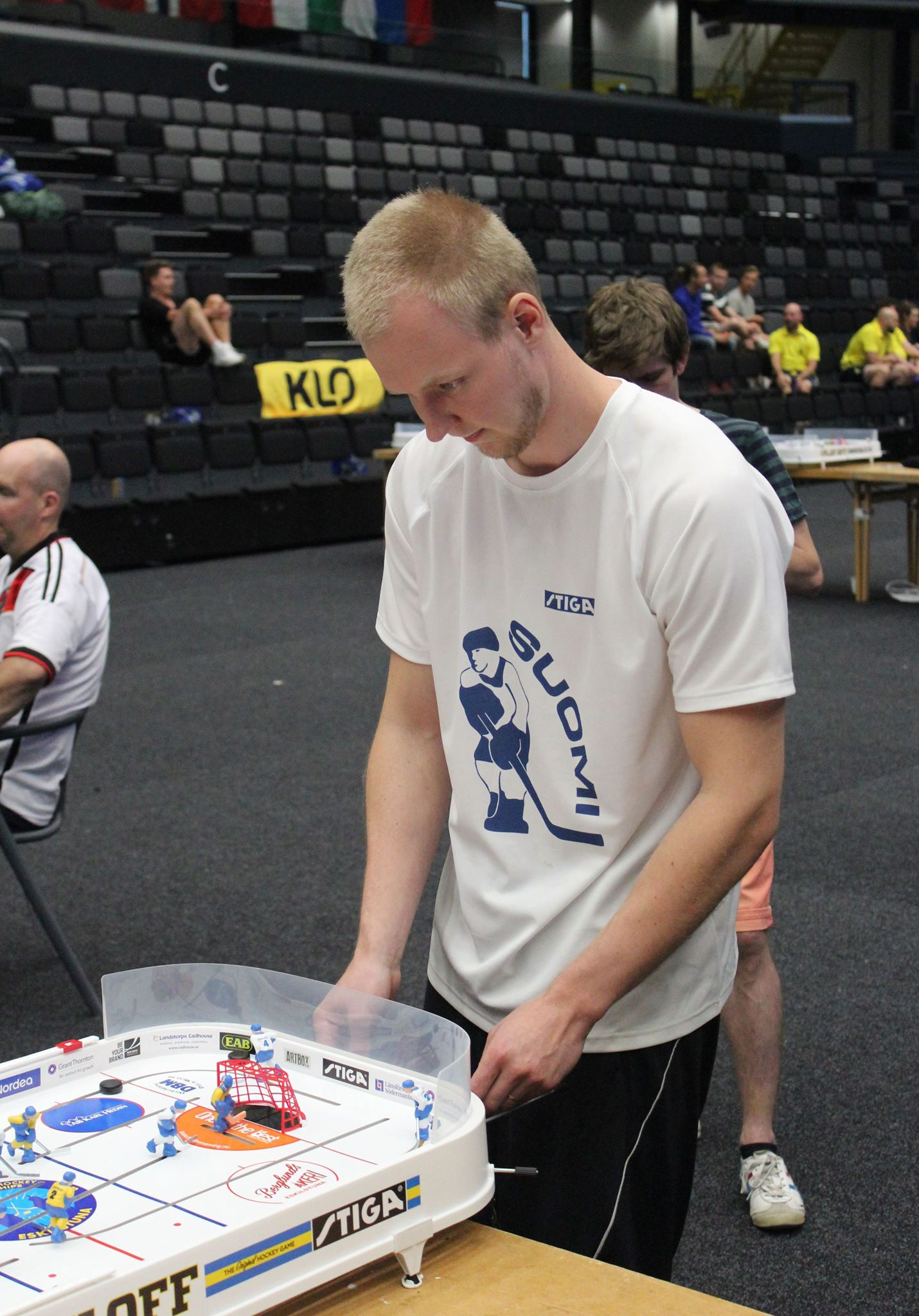 Roni Nuttunen, the world champion in table hockey at 2007 and 2009, playing at European Championship-2018 in Eskilstuna (SE)